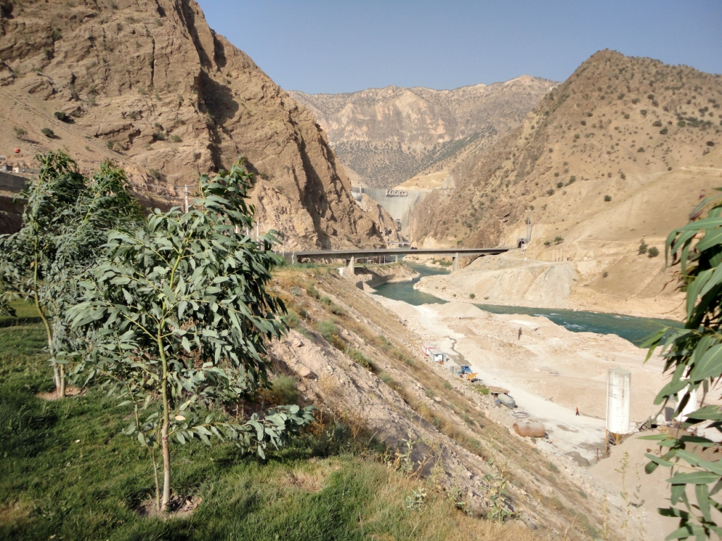 Karun-4 Dam